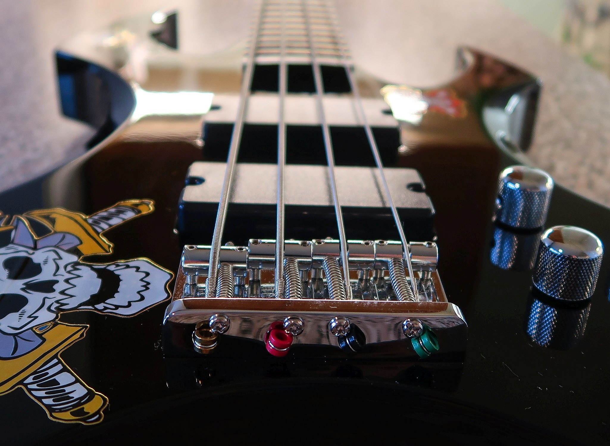 Bridge of electric bass guitar ESP LTD AX104